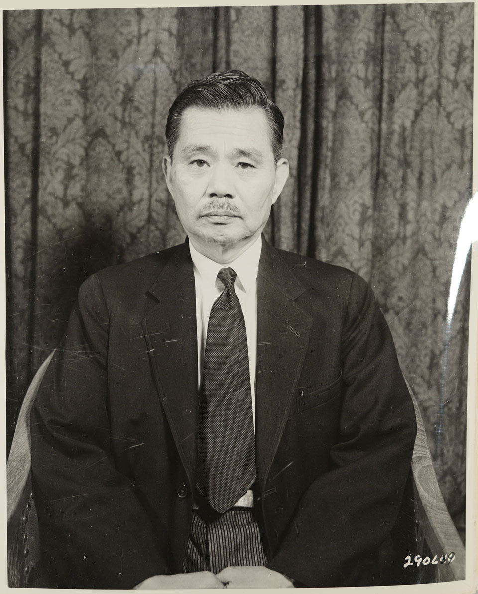 Okinori Kaya during the trial for war crimes at International Military Tribunal for the Far East